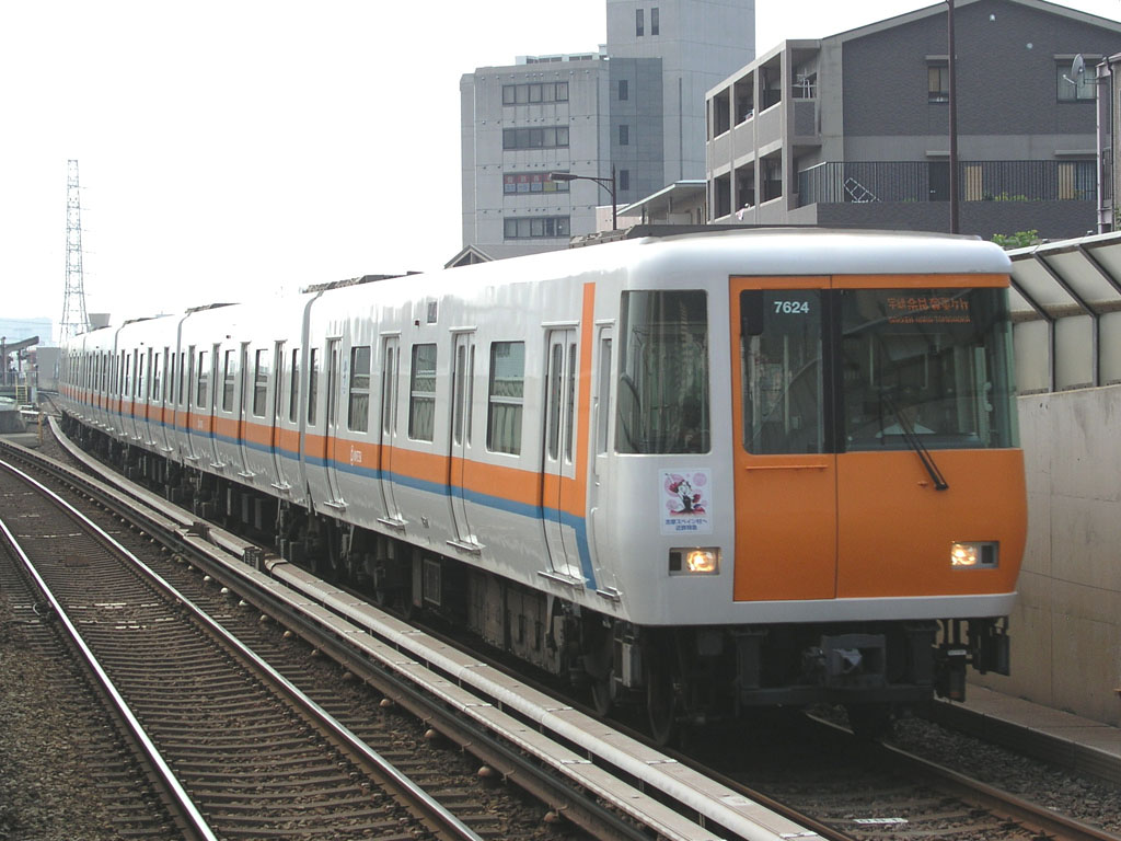 Kintetsu type 7020 for Keihanna Line